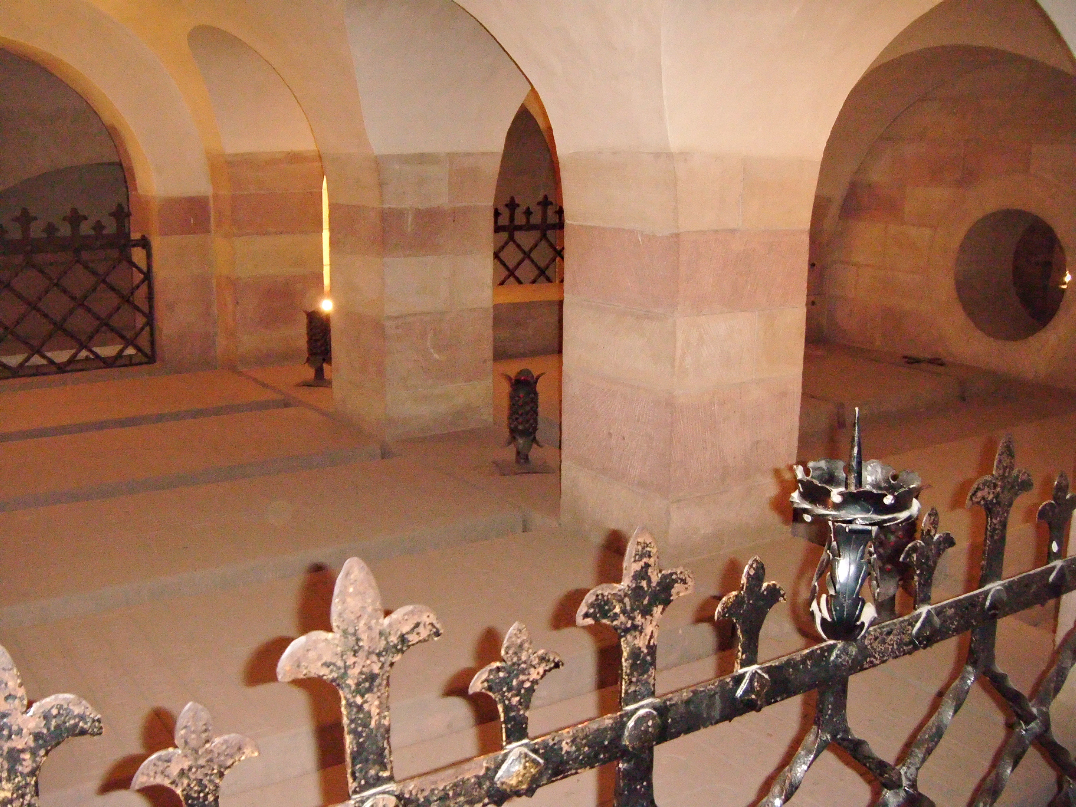 Kaisergruft Speyerer Dom